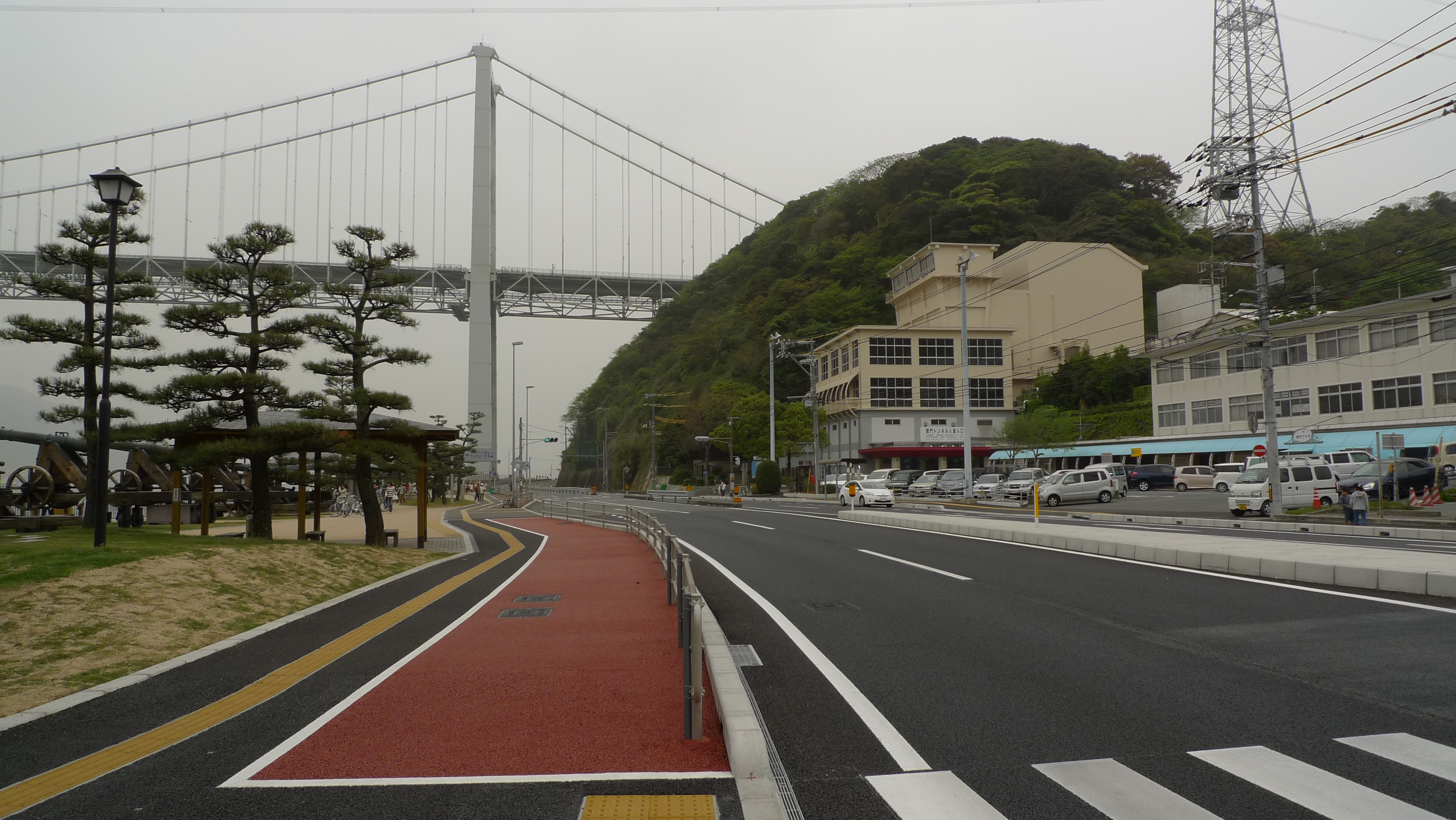 National route 9, Mimosusogawa park, Kanmon tunnel Shimonoseki entrance for pedestrians, and Kanmon bridge.